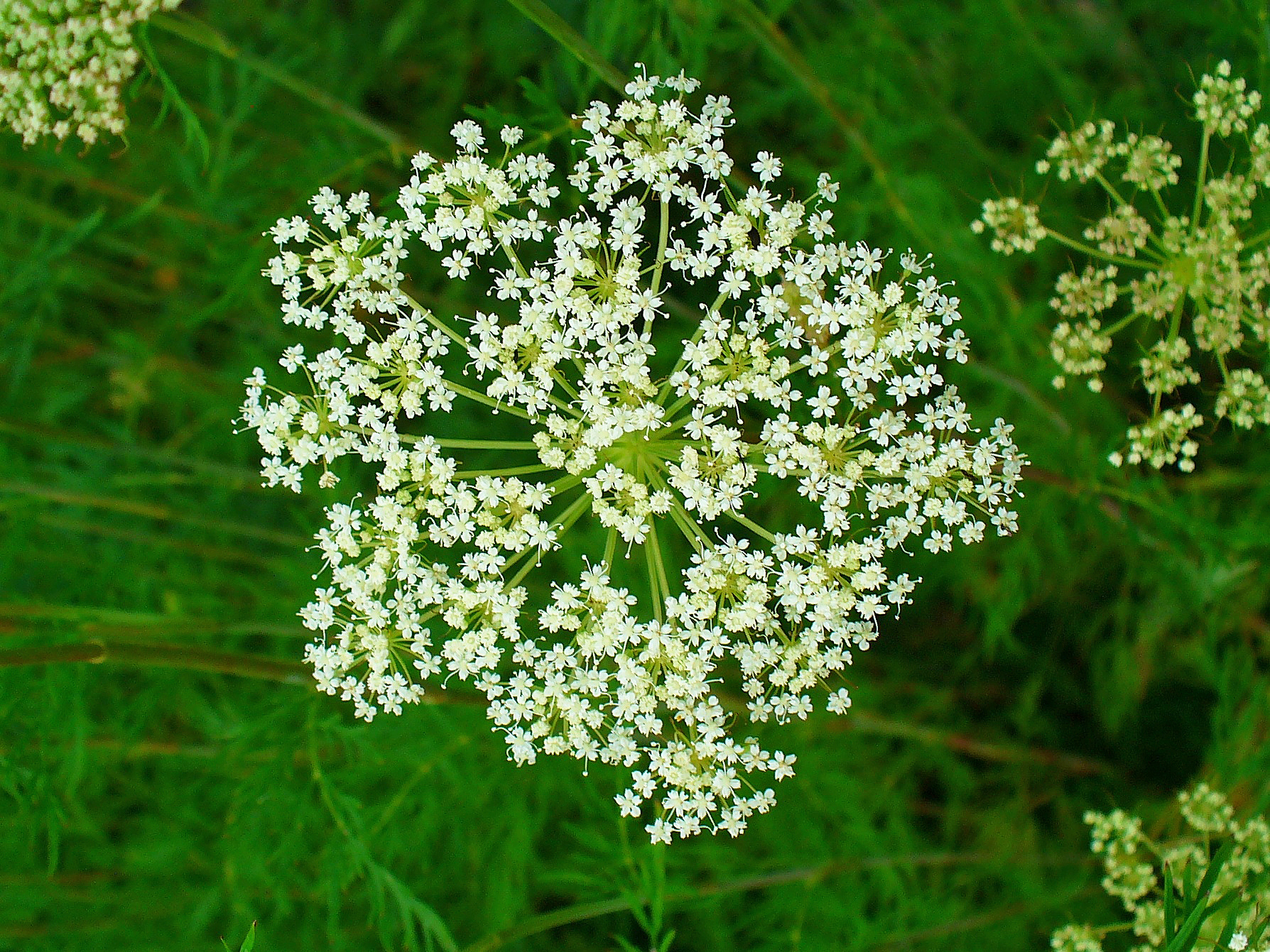 Cnidium dubium, Apiaceae, inflorescence; Botanical Garden KIT, Karlsruhe, Germany.